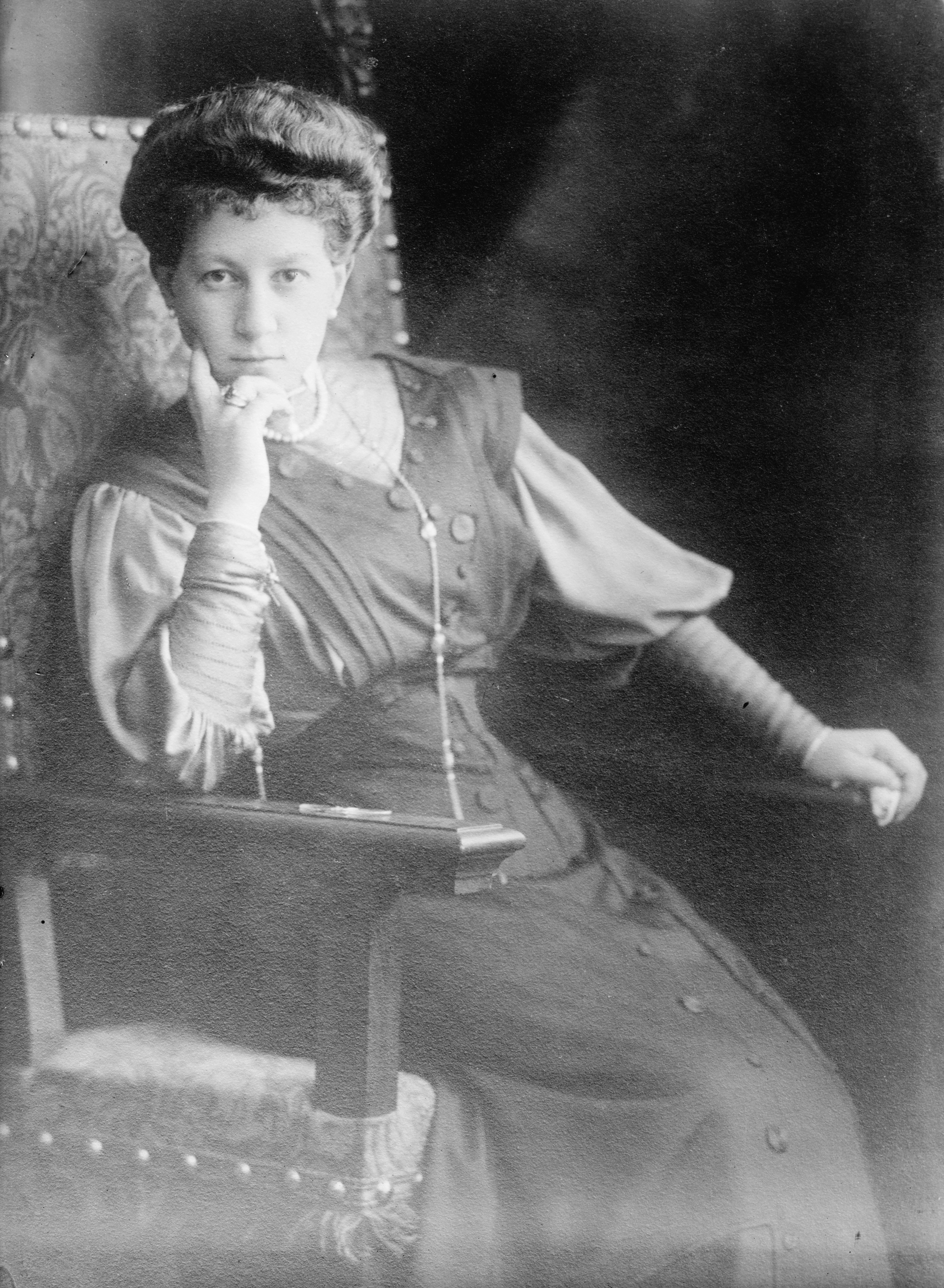 Princess Maria of Greece and Denmark (Grand Duchess Maria Georgievna)